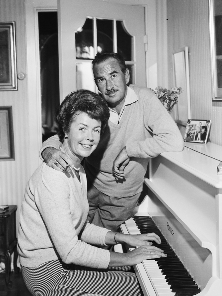 Caricaturist and illustrator Sao Grenning and wife Bjørg Sigrunn Stølann at home at Tåsen, Oslo, Norway. Photo by Rigmor Dahl Delphin 1965. Copied from the picture archive at Oslo Museum ([1])